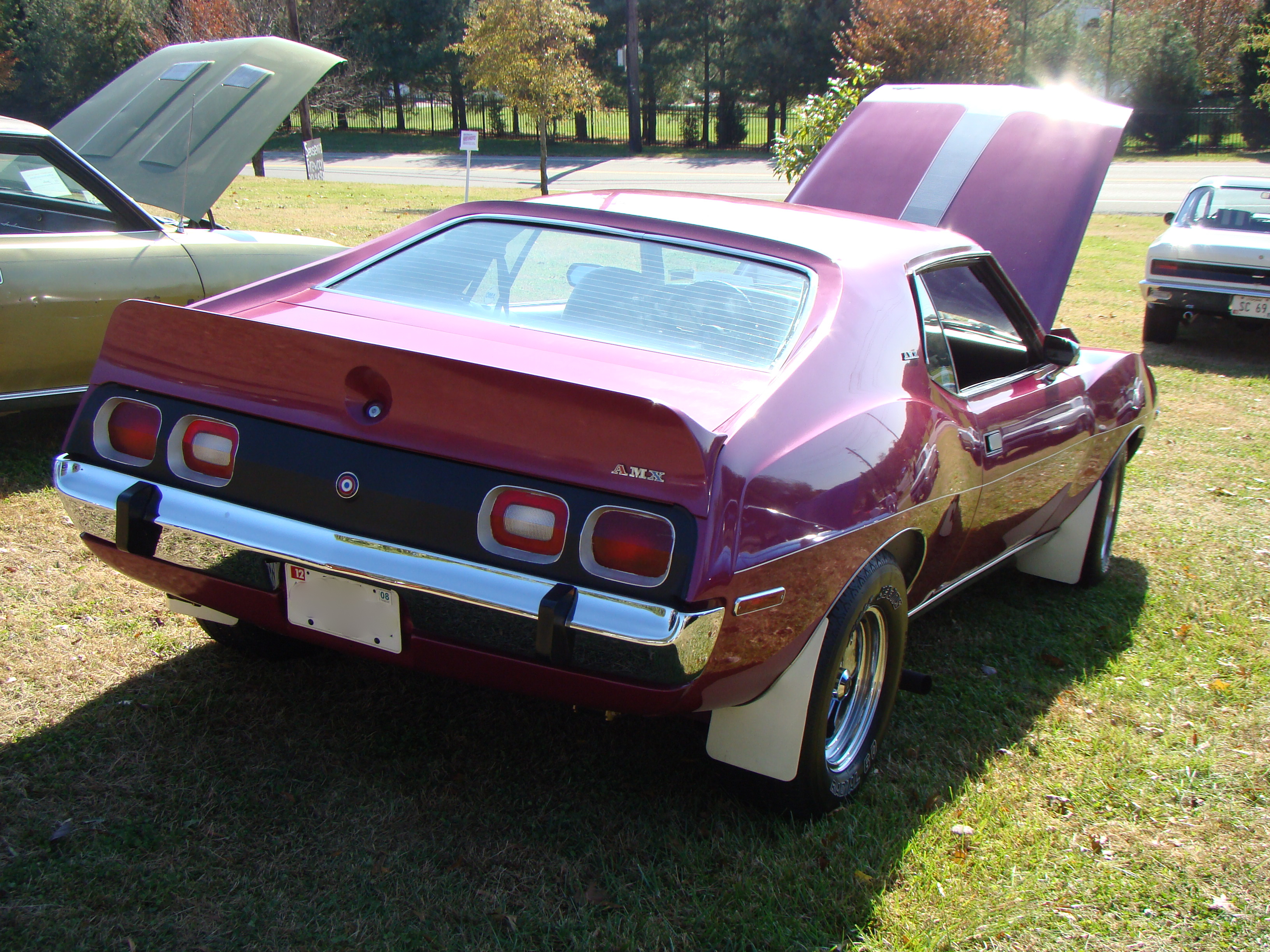 1973 AMC Javelin AMX finished in "Fresh Plum" metallic (paint code: F3) - rear view. This muscle "pony car" has the factory "Go Package" - American Motors' 401 cubic inch displacement (6.6 L) V8 engine with ram air induction. It also has owner-added performance enhancements, as well as aftermarket wheels and other custom appearance features.